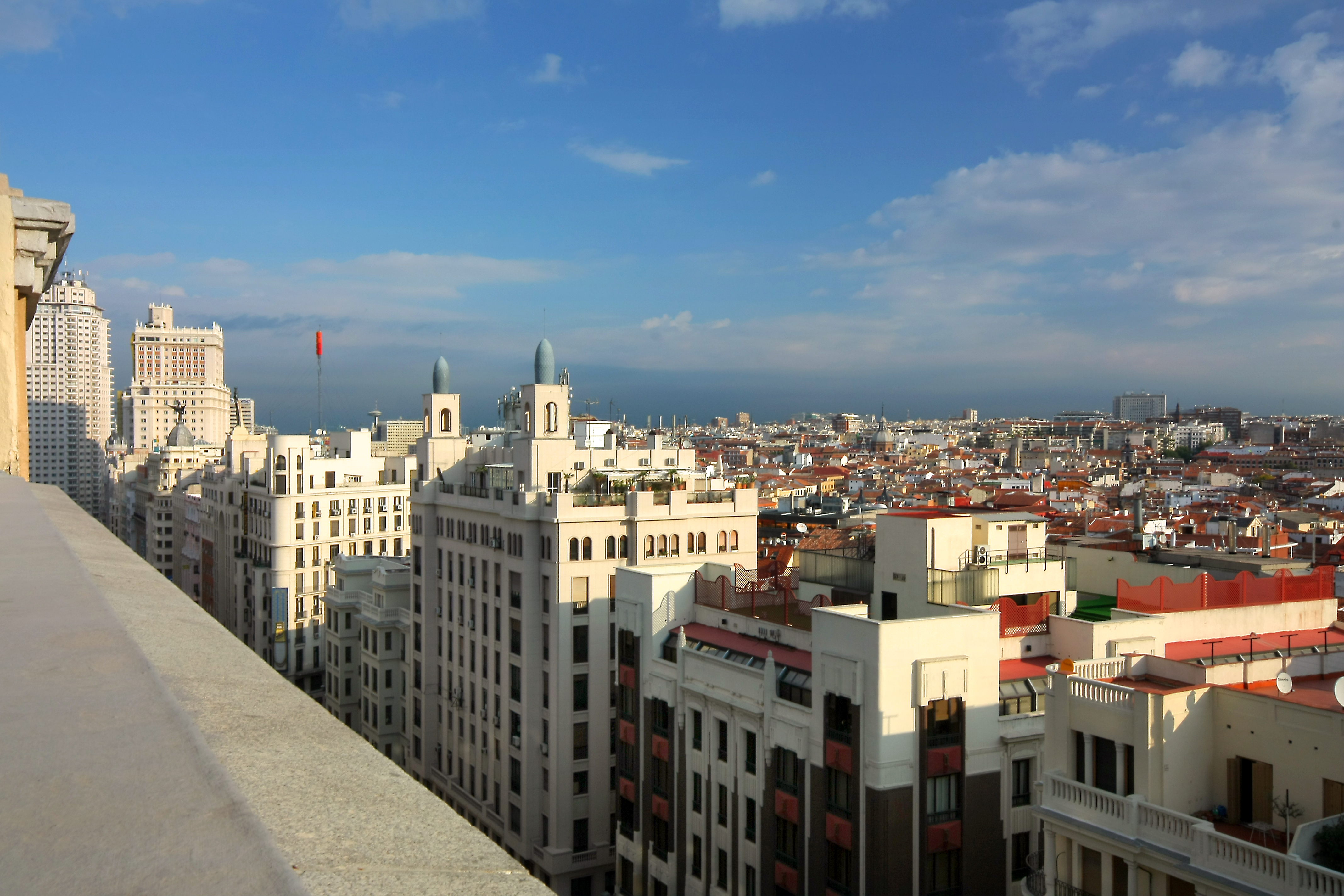 Buildings at Gran Vía (a downtown avenue) in Madrid (Spain), seen from Edificio Carrión (at Plaza del Callao, square).